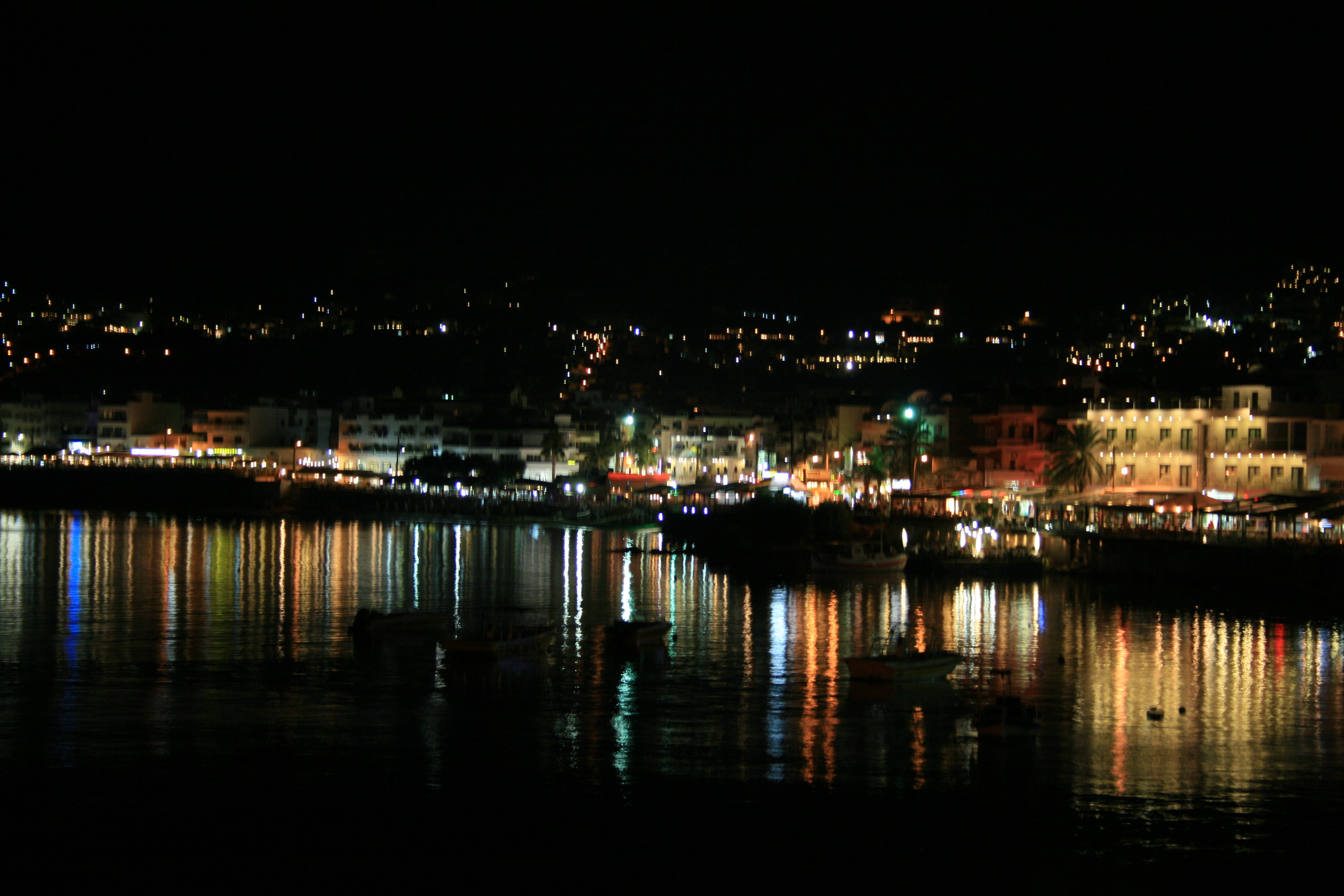 Hersonissos Harbour at night, Crete, Greece